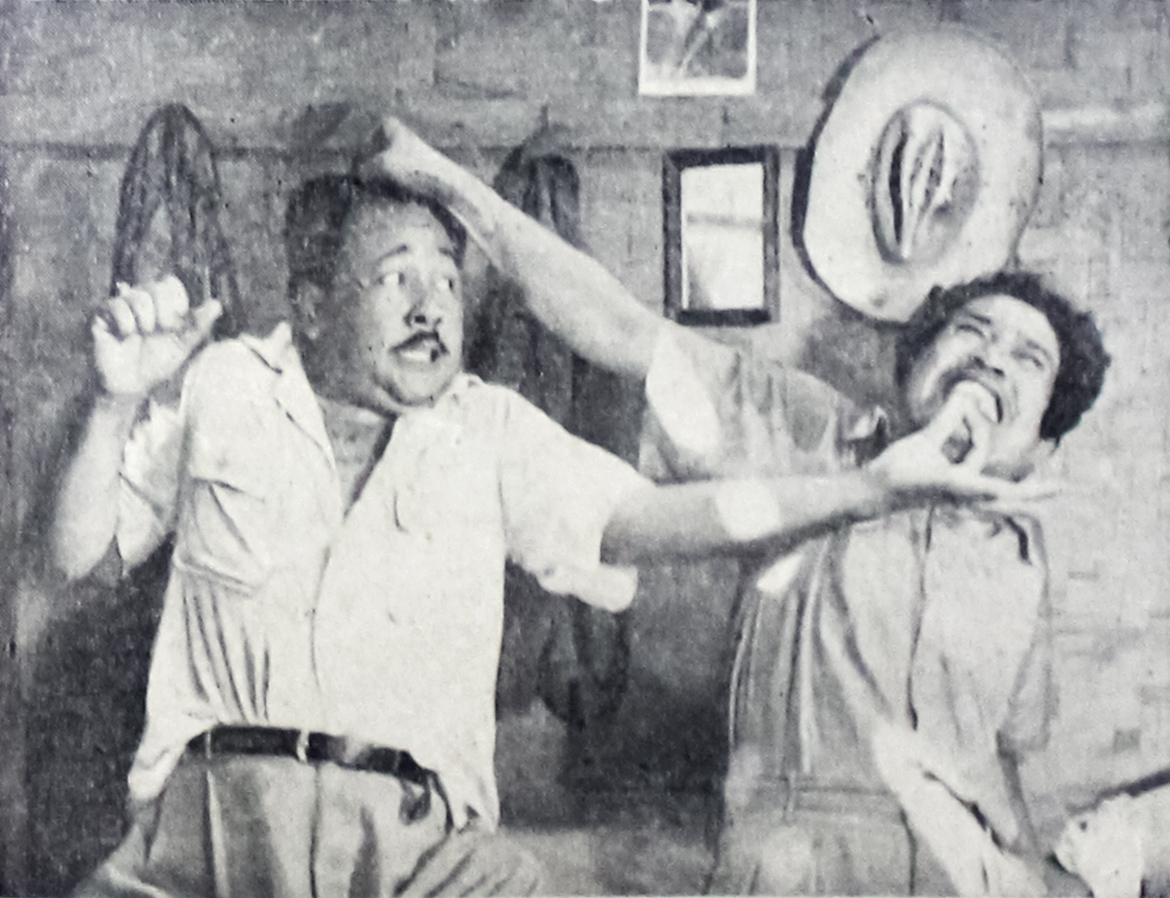 S Poniman in a scene from Malam Minggu